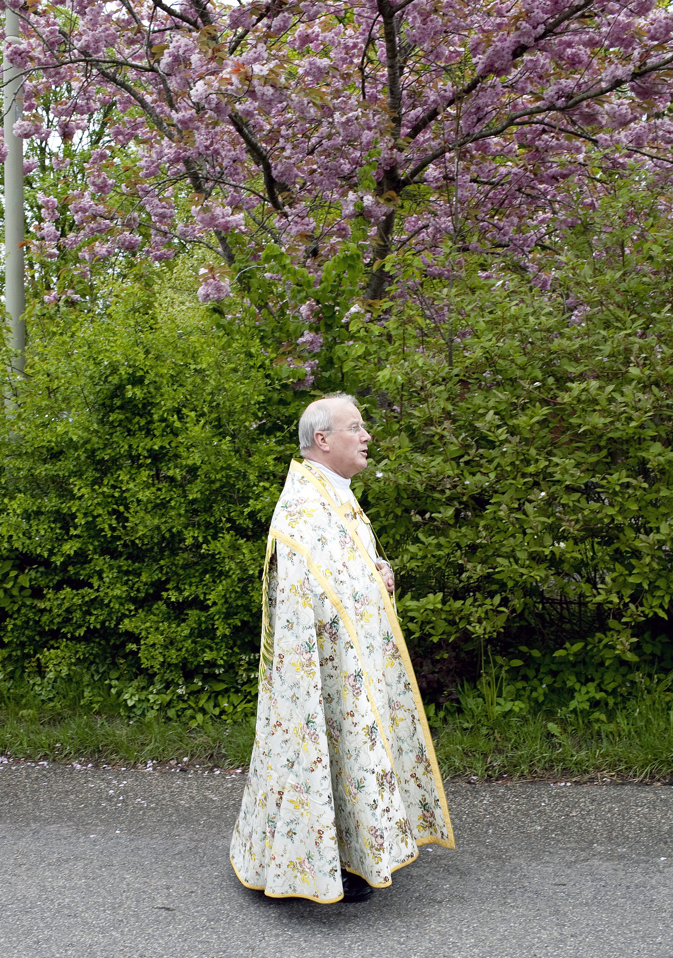 Father Wagenaar of the cathedral in Groningen during a procession in honour of our lady of Warfhuizen